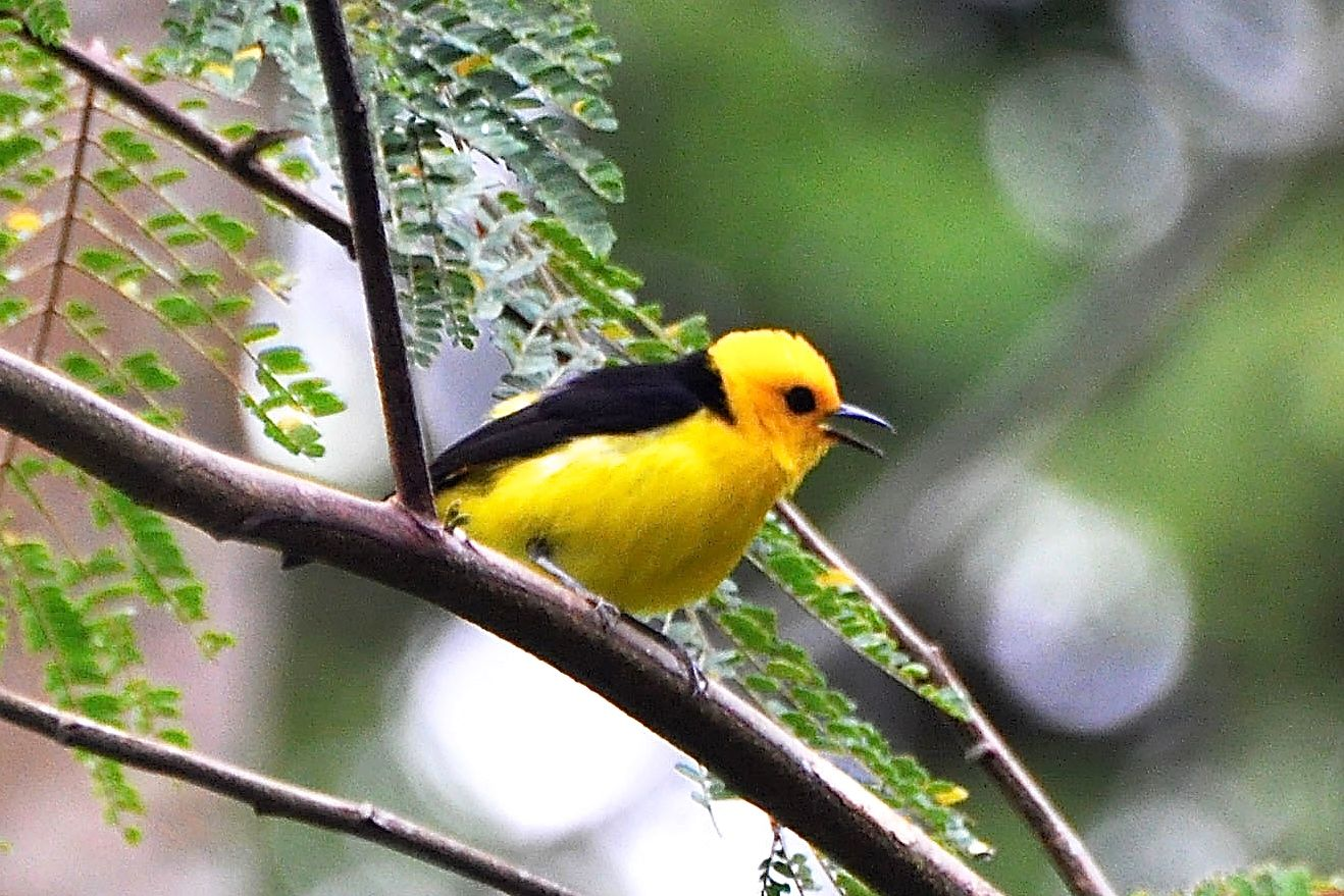 Black-and-yellow Tanager (Chrysothlypis chrysomelas), Virgen del Scorro, Costa Rica, cropped from original